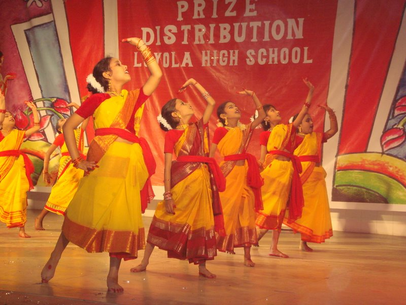 traditional program loyola